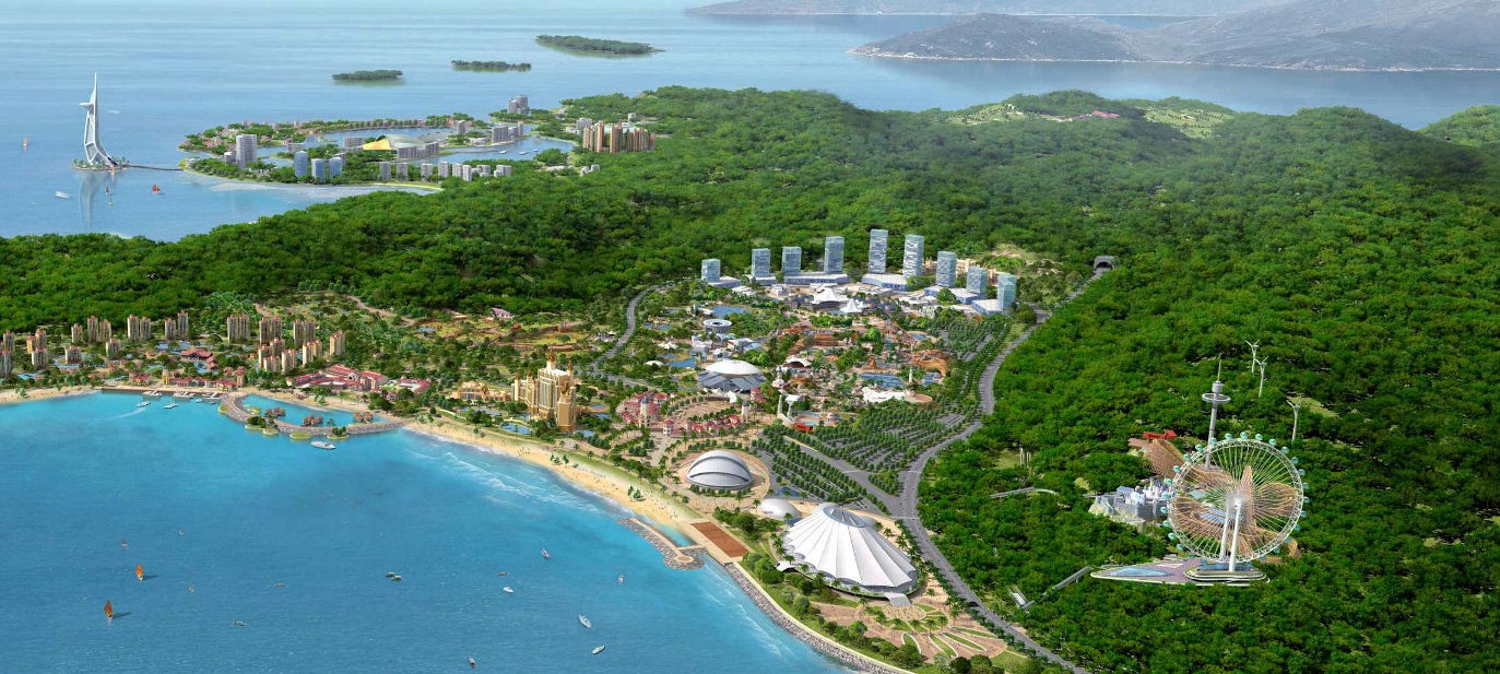 The world's largest aquarium, Chimelong Ocean Park, on Hengqin Island, Zhuhai.